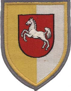 coat of arms of the Bundeswehr (Armed Forces of the Federal Republic of Germany). → Remarks on naming and categorization scheme